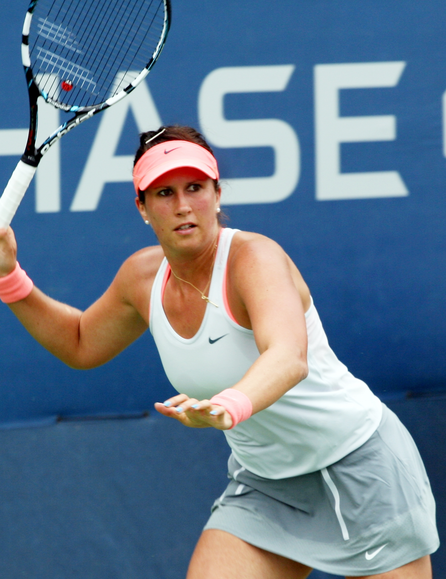 Monday, August 26